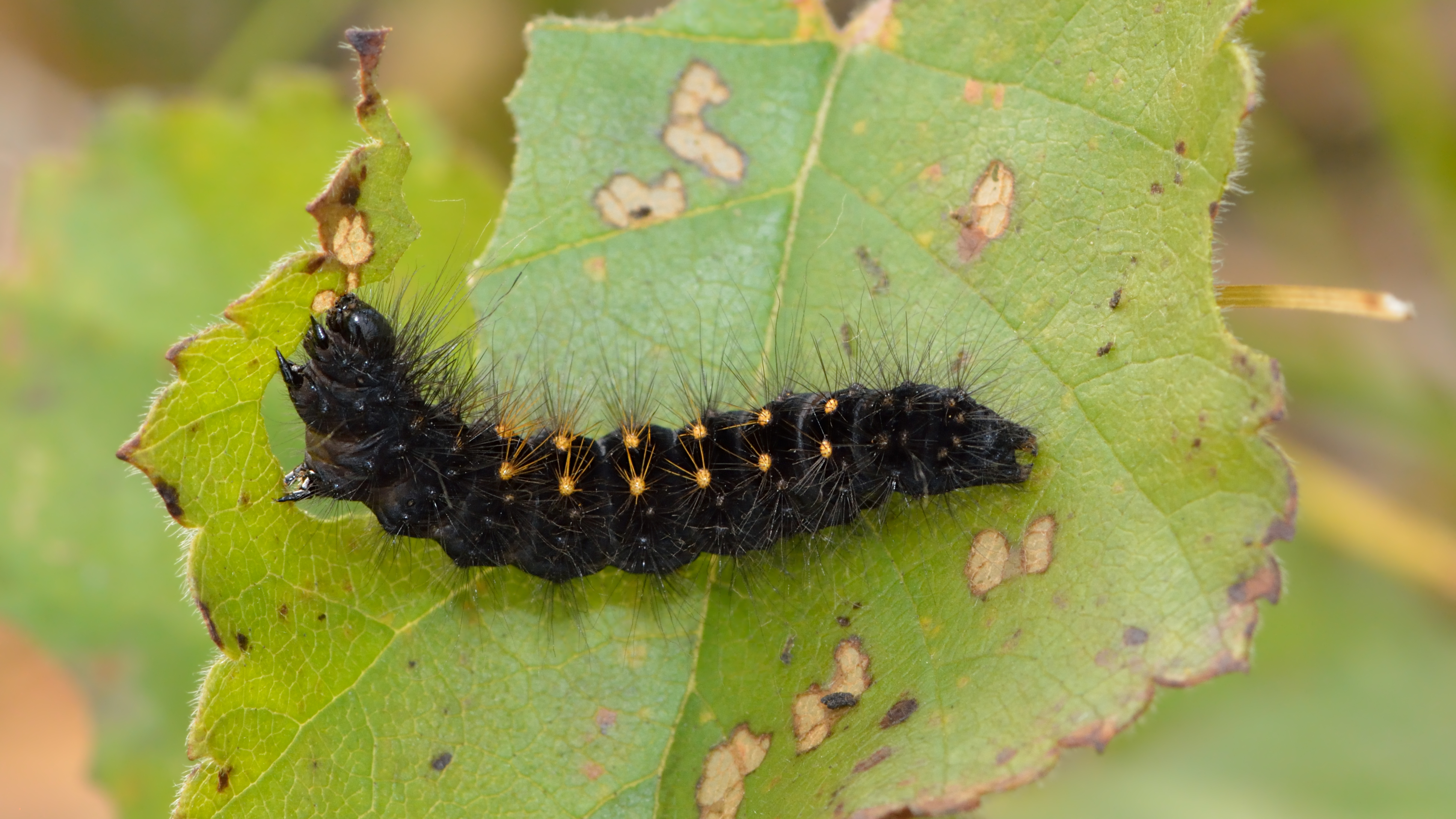 Scarce dagger (Acronicta auricoma) larva, feeding on the moor birch (Betula pubescens). Niitvälja bog, Northwestern Estonia.